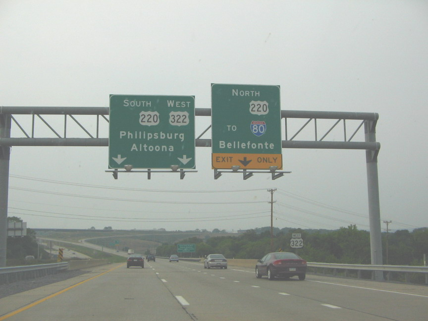 U.S. Route 322 approaching U.S. Route 220. The blank areas to the left of the U.S. 220 symbol are reserved for the I-99 symbol, the future designation of U.S. 220.